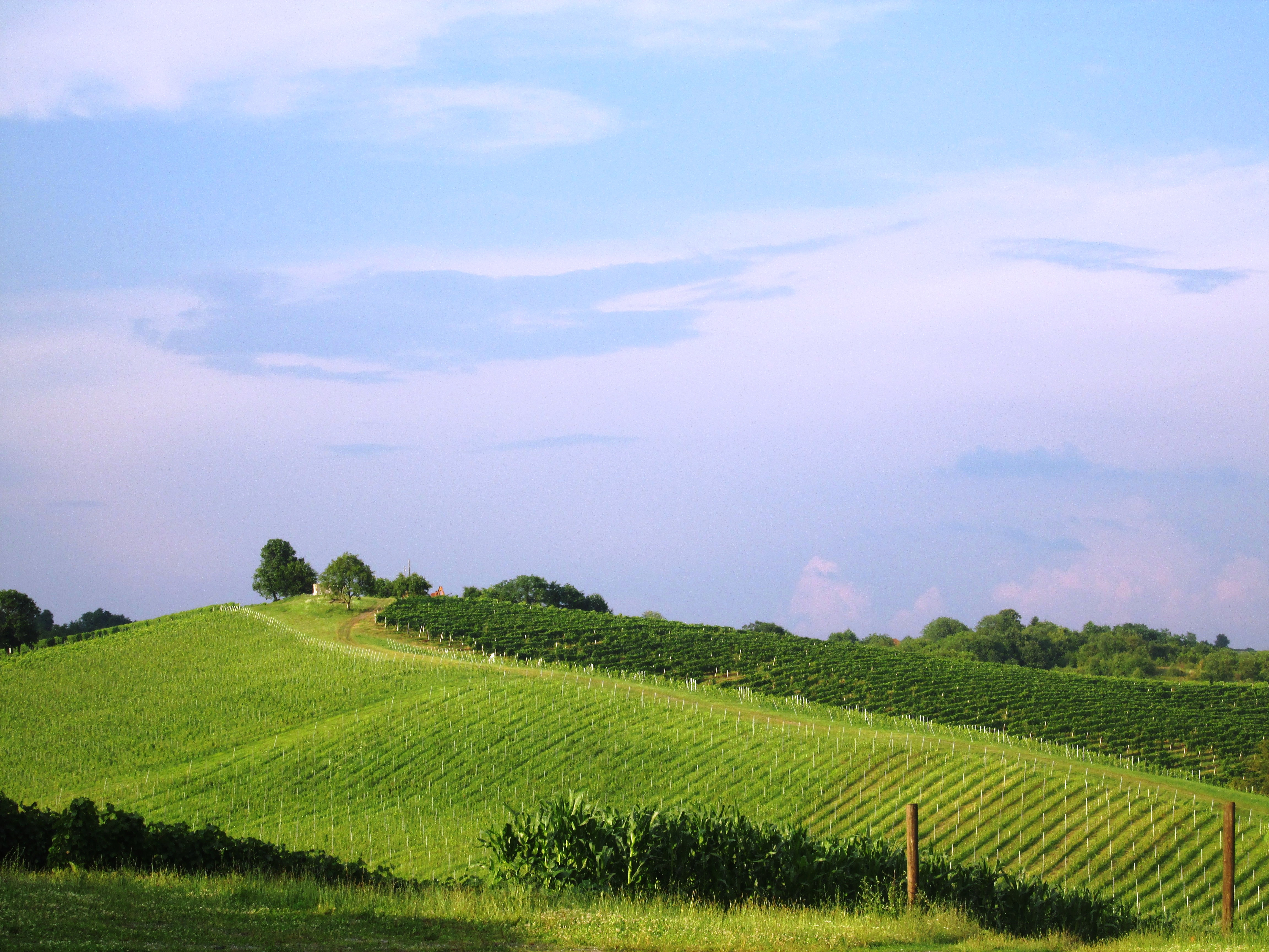 Daruvar wineyards, Croatia